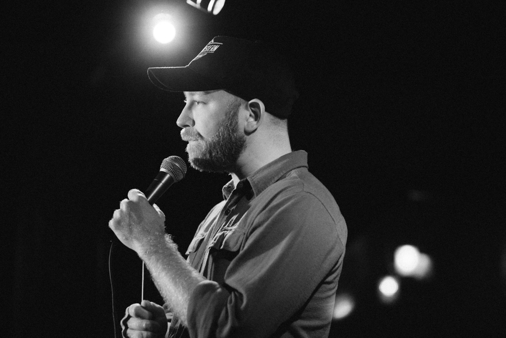 American comedian Kyle Kinane, at Not Safe For Work Presented by Comedy Central Produced by CleftClips Photography by Mandee Johnson / The Del Monte Speakeasy at Townhouse Venice - Los Angeles, CA May 7, 2013